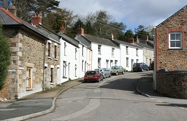 Market Street, Devoran. Devoran today is a large but quiet village. In the mid 19th century was one of the busiest ports in Cornwall, shipping copper ore and tin ingots to South Wales.